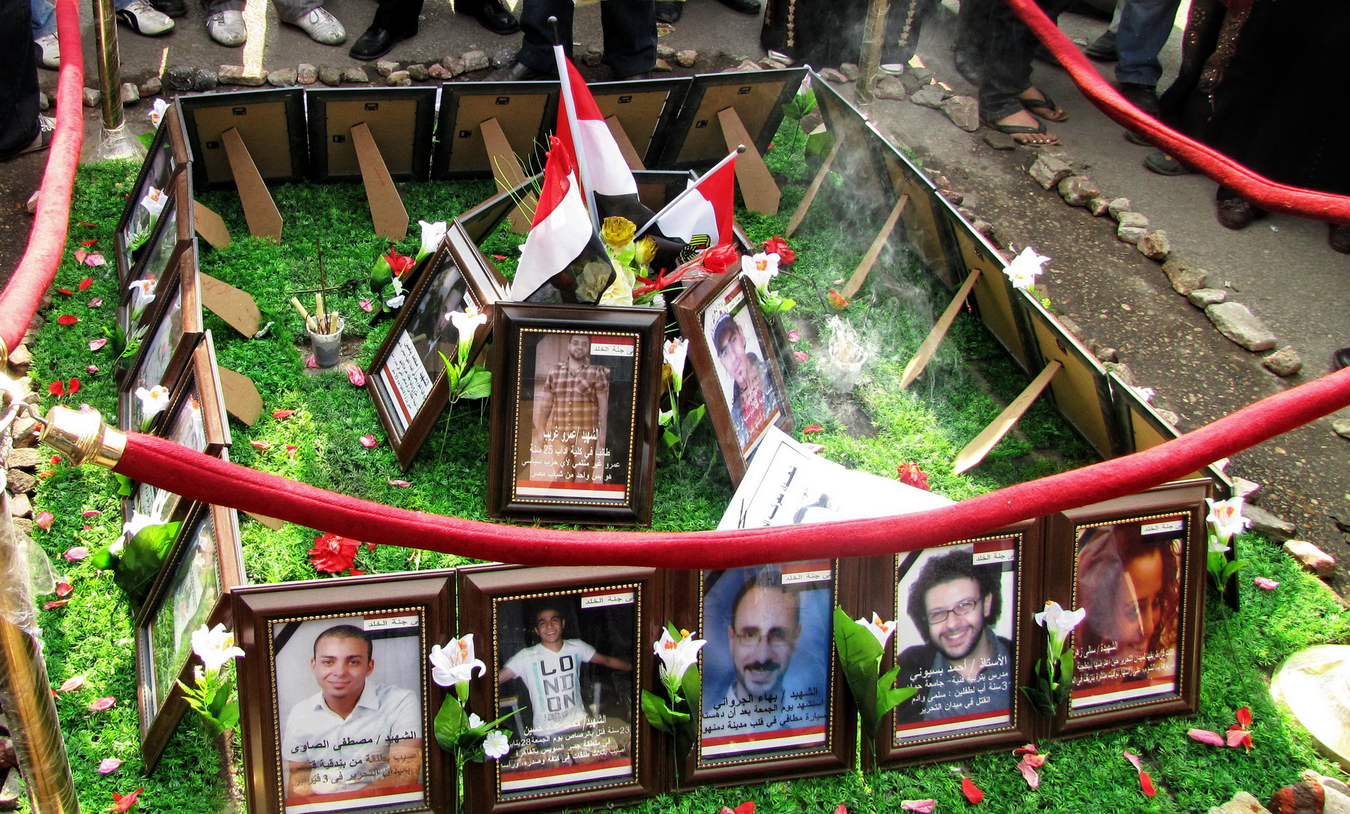 A memorial in Tahrir Square made by the demonstrators in honor of those who died during the Egyptian Revoluion of 2011, regarded as shuhada شهداء – "martyrs" – in Egyptian parlance. The captions in the pictures attribute most of the deaths to police violence one way or another. Beginning in the front row, from left to right: "Mustafa el-Sawy – killed by gunfire in Tahrir Square, February 3." "Mohamed Emad Hussein – 23 years old, killed by gunfire on January 28 in Cairo." "Bahaa' el-Garwany – killed on Friday, in Damanhur." "Ahmed Basiouny – teaches arts at the University of Helwan, 31 years old, father of two – Salma and Adam. Killed in Tahrir Square." "Sally Zahran – intercepted by baltageya – thugs or plainclothes police – who beat her to death on her way to Tahrir Square." "Mohamed Yassin – a graduate of the Faculty of Sciences, Cairo University. Married and father of a daughter five months old. Killed by gunfire in front of the Ministry of Interior, January 29." "Amr Ghareeb – a student of arts, 25 years old." "Islam Ra'fat – 18 years old from Dar-as-Salam, Sohag." Enlarge to see captions.